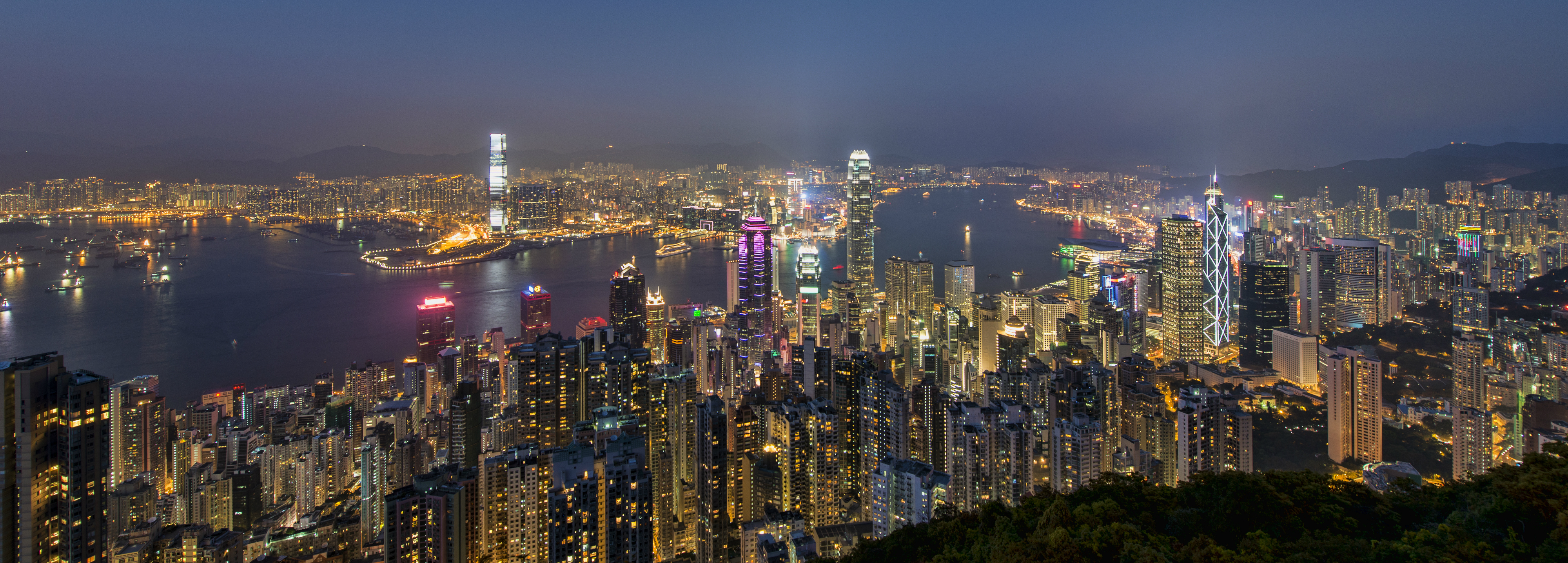 hong kong kowloon night panorama 2013 lugard road victoria peak